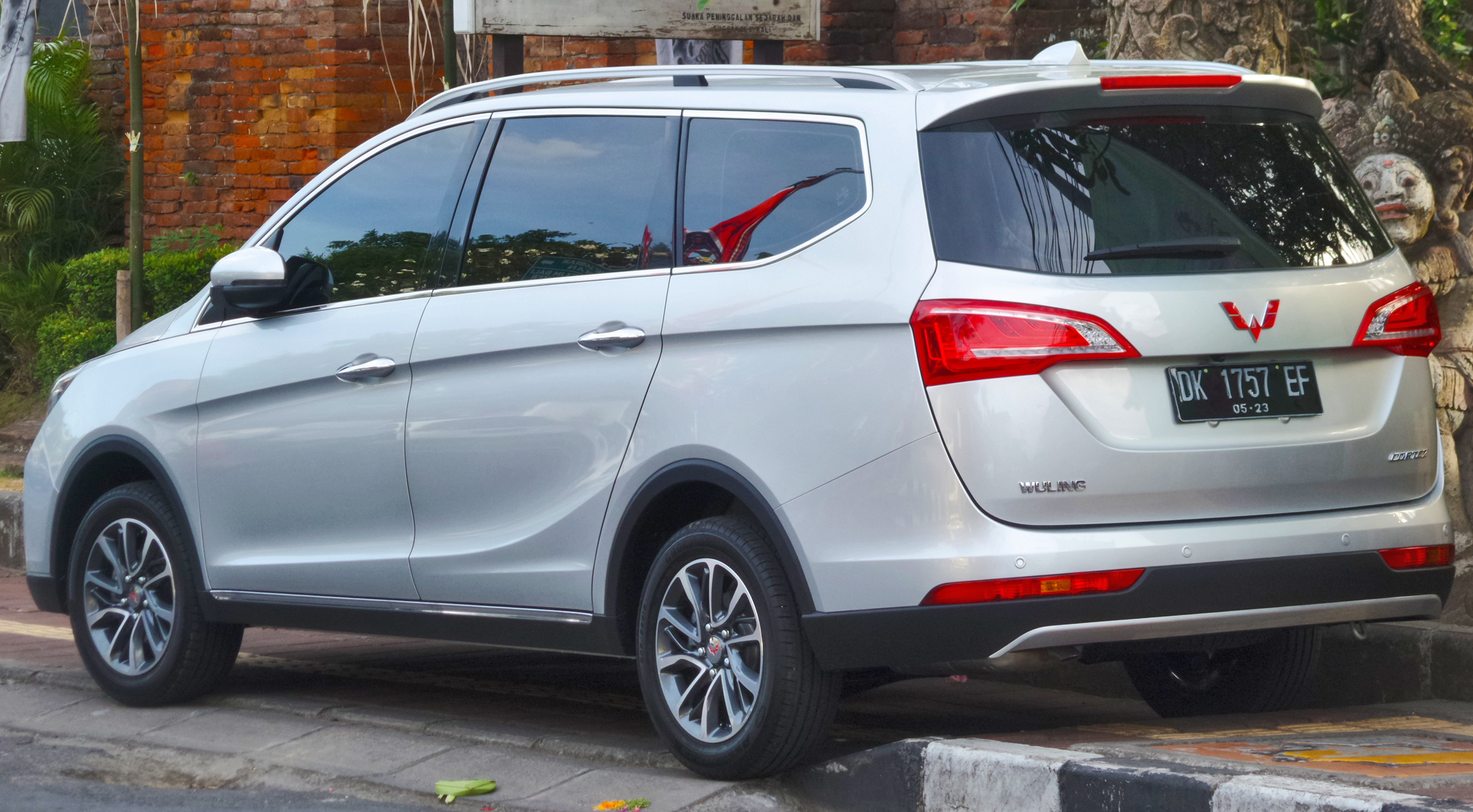 The Indonesian-built Wuling Cortez, itself the rebadge of Baojun 730, parked somewhere in Denpasar, Bali, Indonesia.